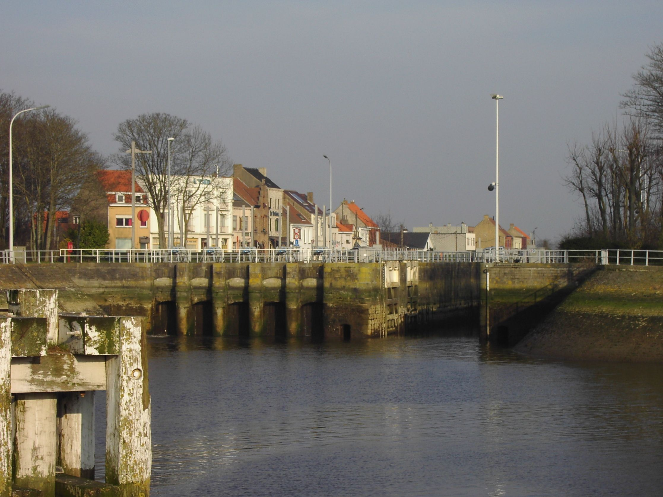 A construction, part of the "ganzepoot", consisting of floodgates and a pound lock, at the mouth of the river Yser.